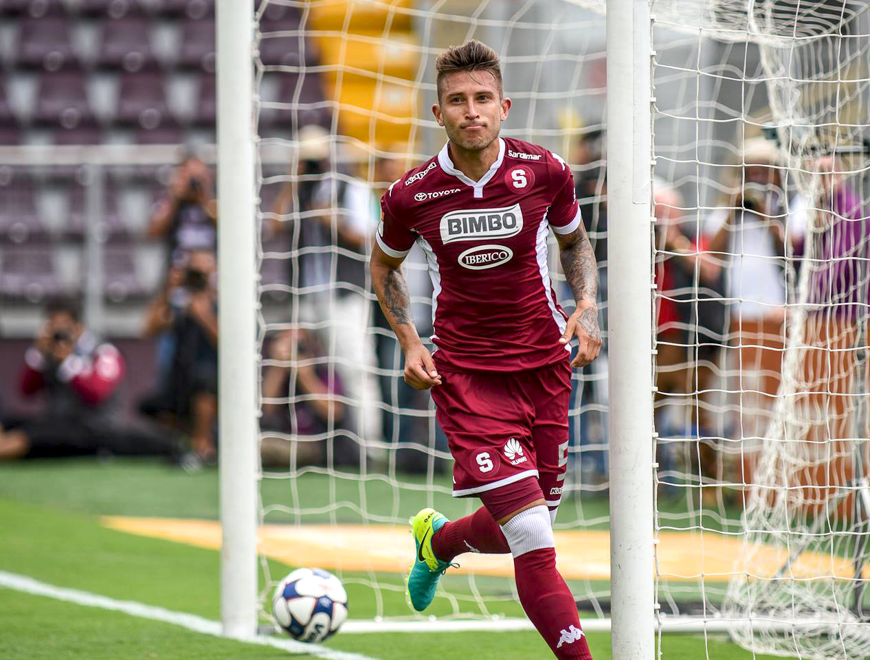 Francisco Calvo celebrating a goal in July, 2016.